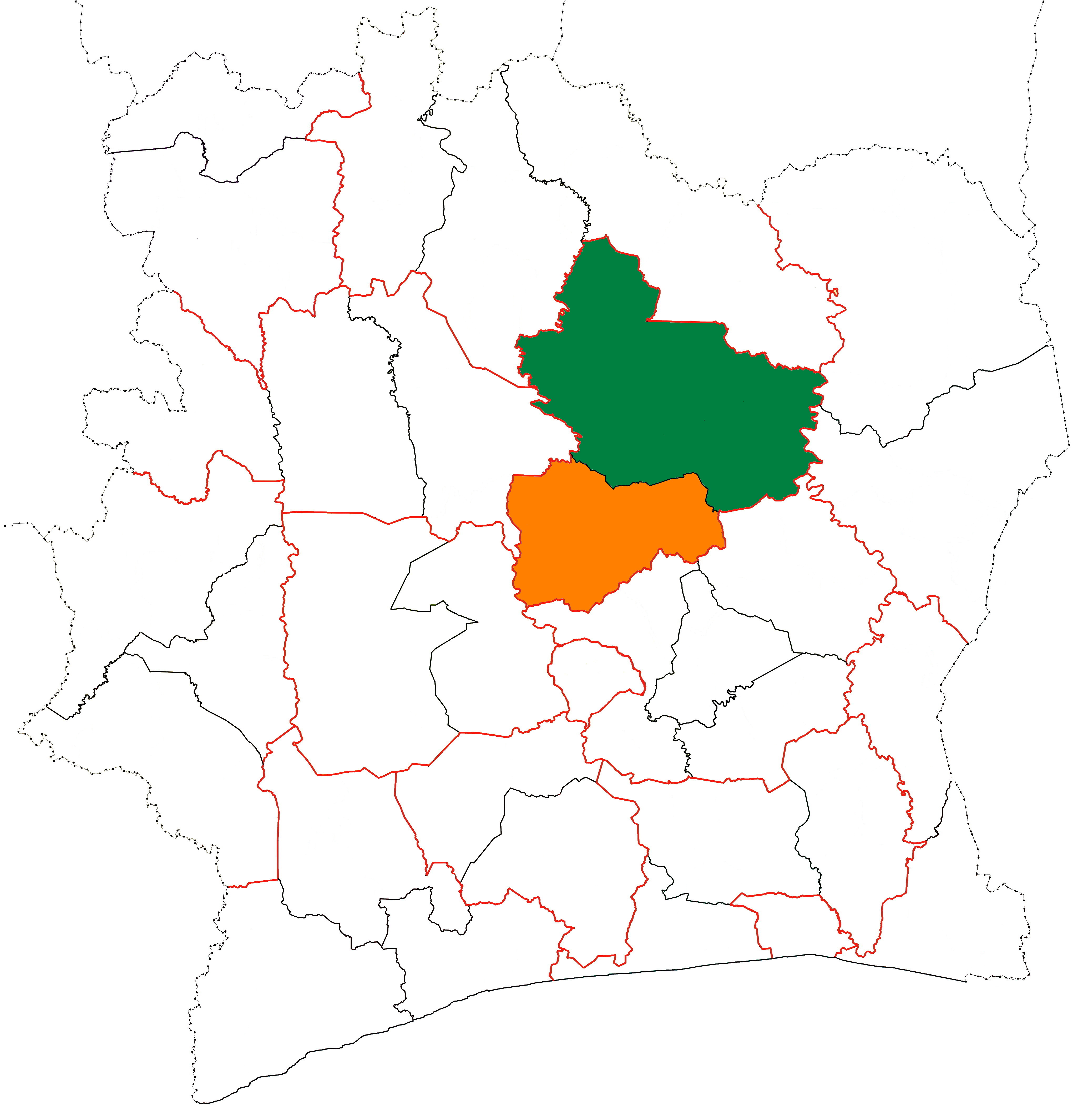 The location of Hambol region (green) in Côte d'Ivoire. The other shaded areas represent the other parts of Vallée du Bandama District.